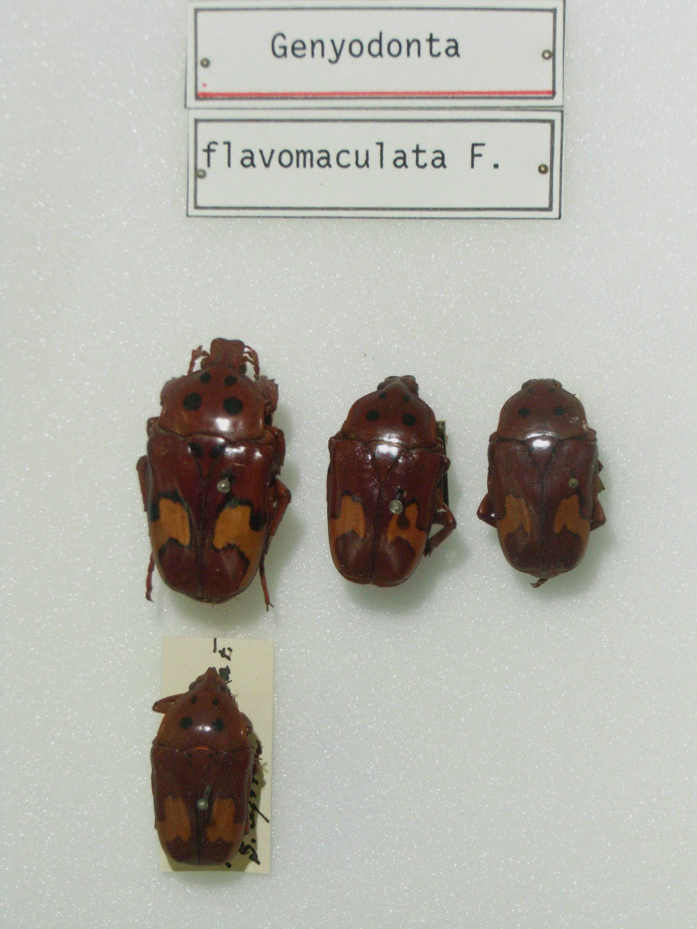 Genyodonta flavomaculata Fabricius, 1798 Cetoniinae Scarabaeidae Ex coll. Museum Wiesbaden